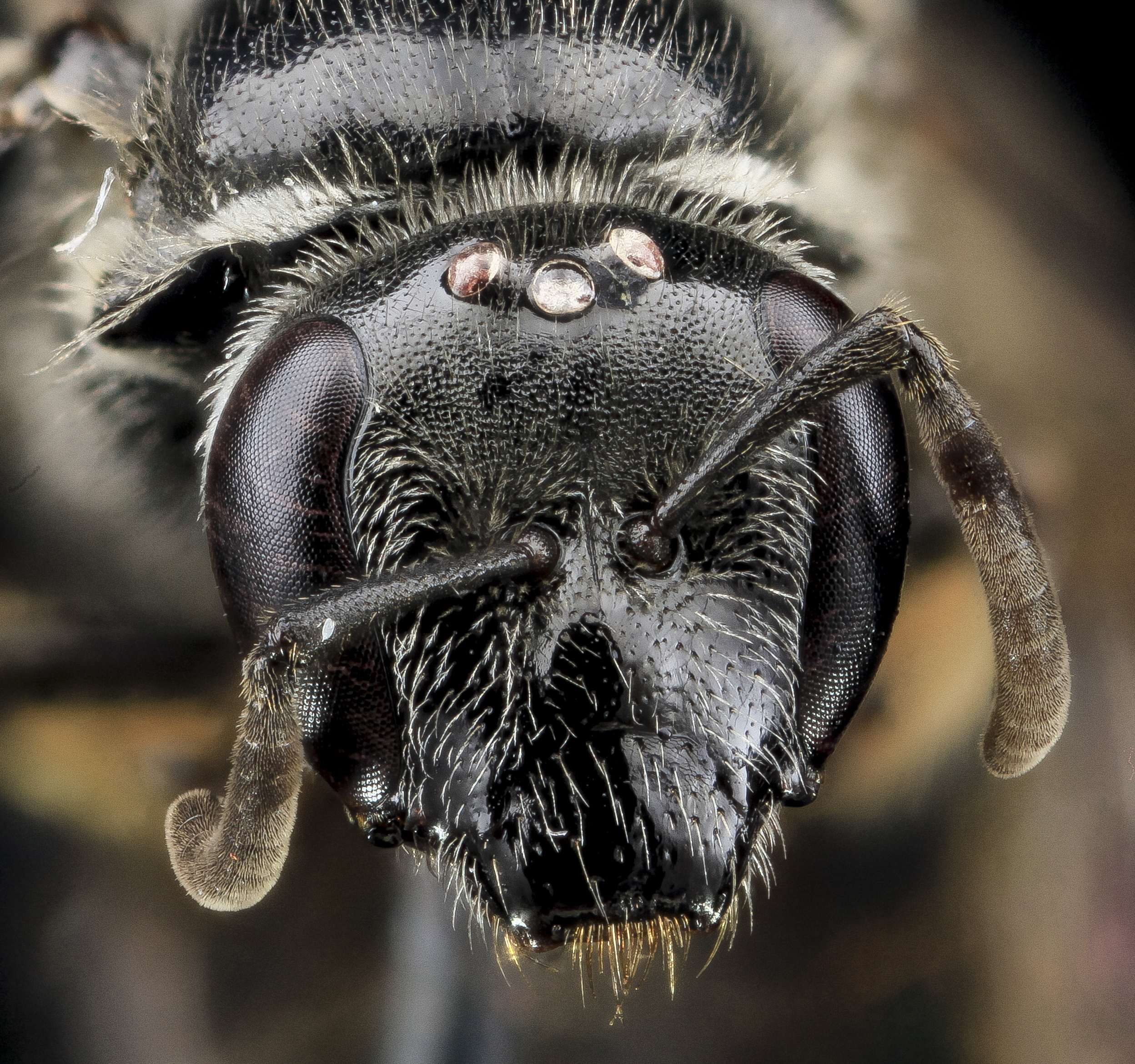 Lasioglossum pectinatum, Maryland , Washington County. One very rare bee, this is the first one I have seen a specimen of from the state